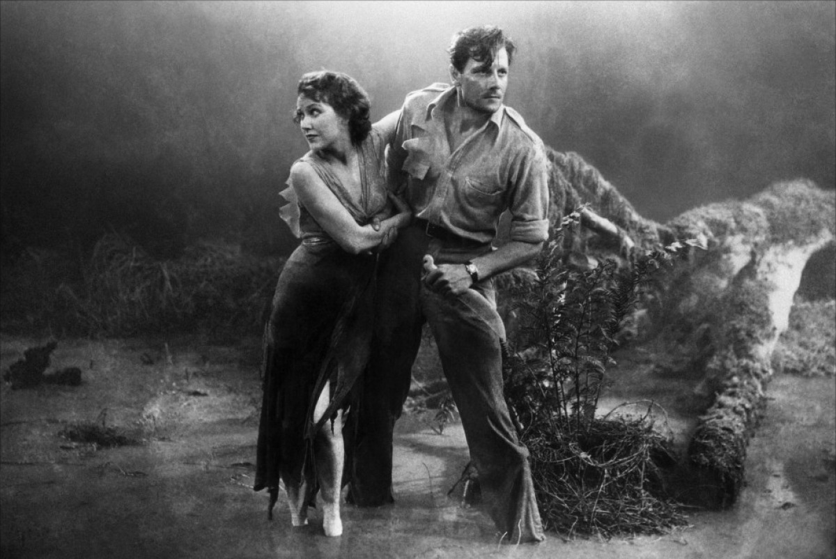 Screenshot from The Most Dangerous Game (film, 1932) depicting Fay Wray and Joel McCrea